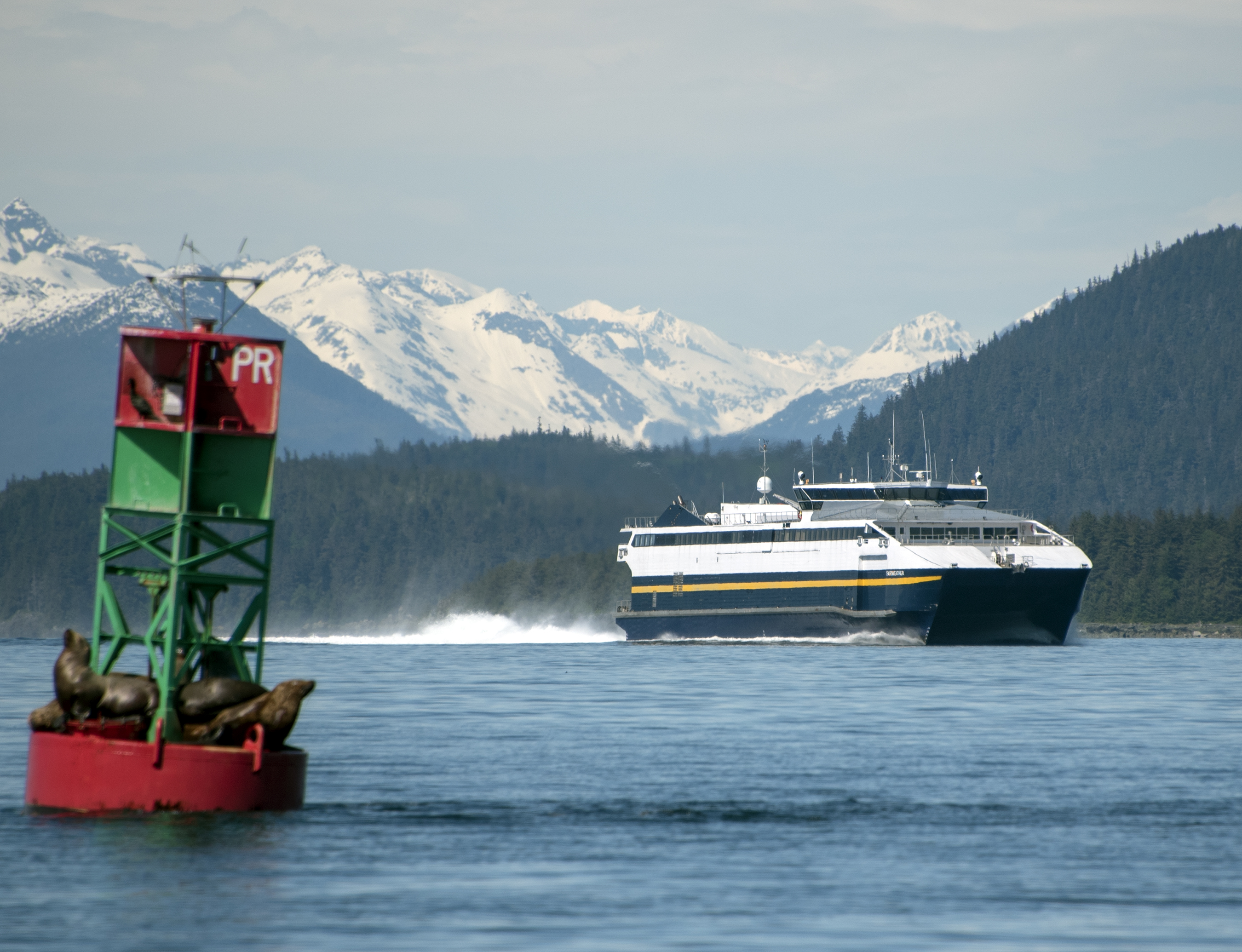 Alaska Marine Highway fast ferry m/v Fairweather passing Poundstone Rock heading to Auke Bay Terminal - Southeast Alaska.